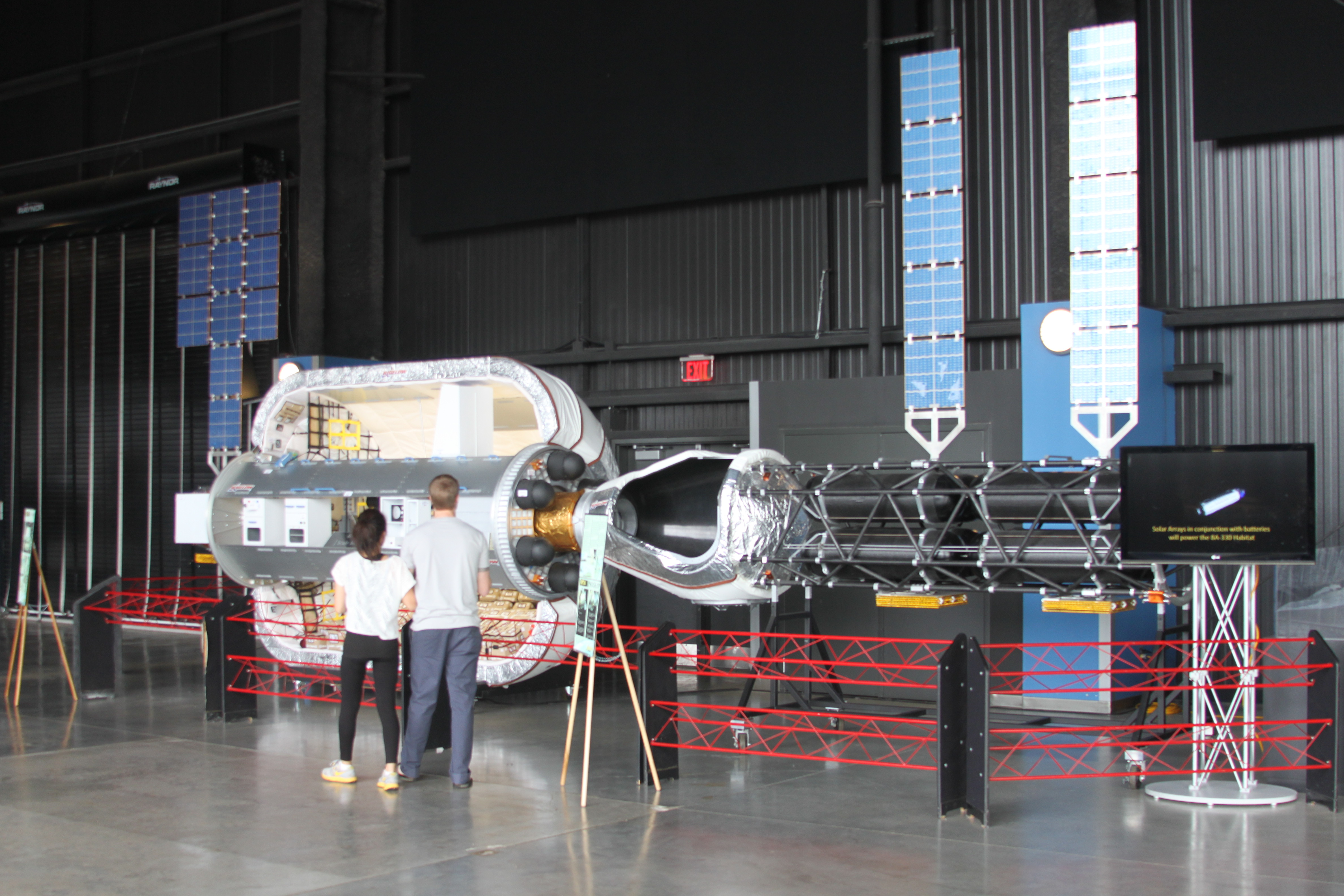 Bigelow Aerospace BA-330 space station model on display at the U.S. Space & Rocket Center